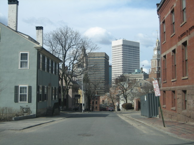 Downtown Providence skyline from college hill. The Providence County Courthouse (1930) with its prominent steeple can be seen at right. Taken by user: ctman987 with permission.